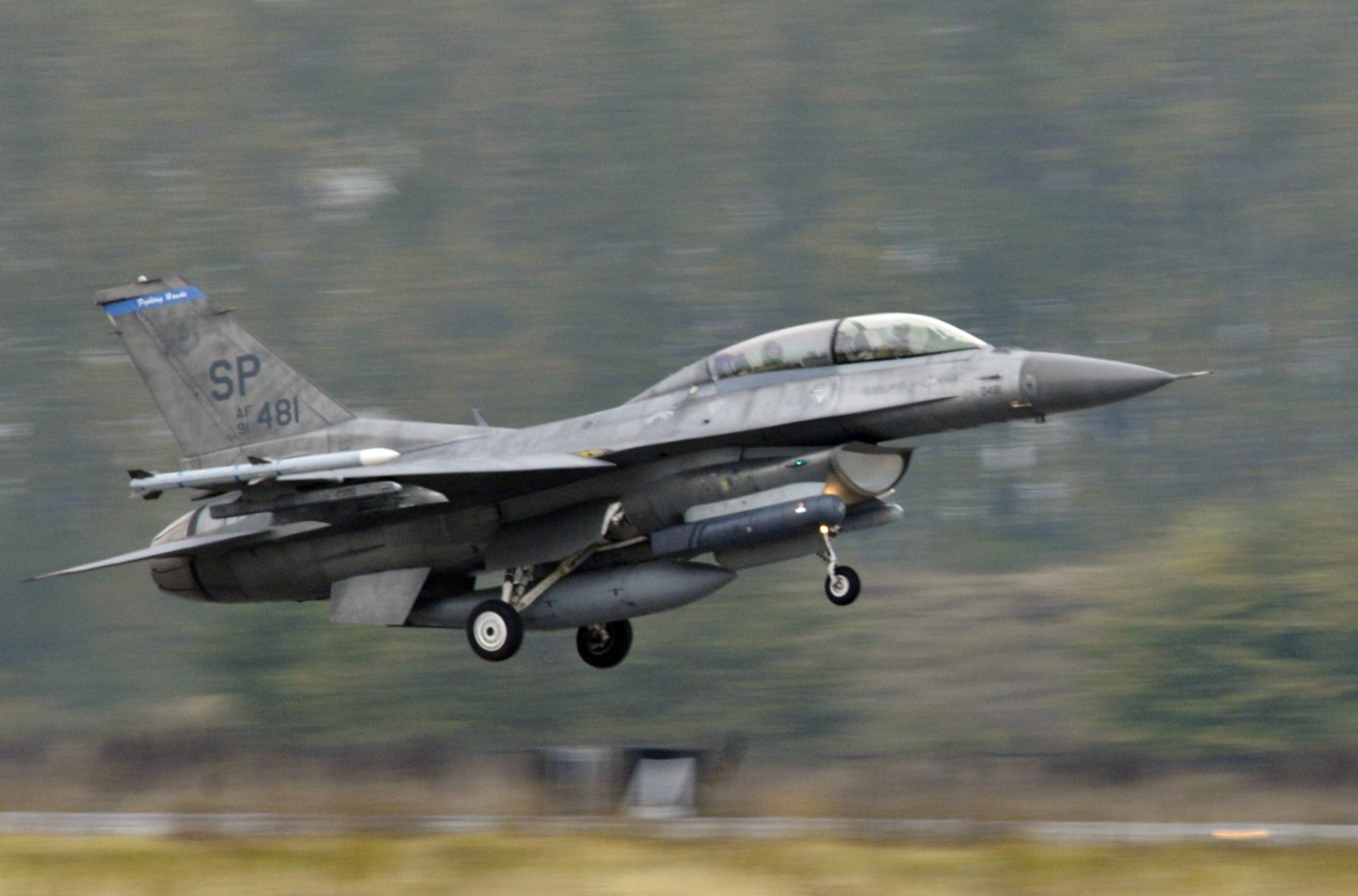 U.S. Air Force General Dynamics F-16D Block 50D Fighting Falcon (s/n 91-0481) takes off from the runway of Graf Ignatievo Air Force Base, Bulgaria, during Operation "Thracian Star" on 13 October 2010. During the operation pilots from Spangdahlem Air Base’s 480th Fighter Squadron trained against MiG-29 and MiG-21 aircraft as well as practiced suppression and destruction of enemy air defense systems.